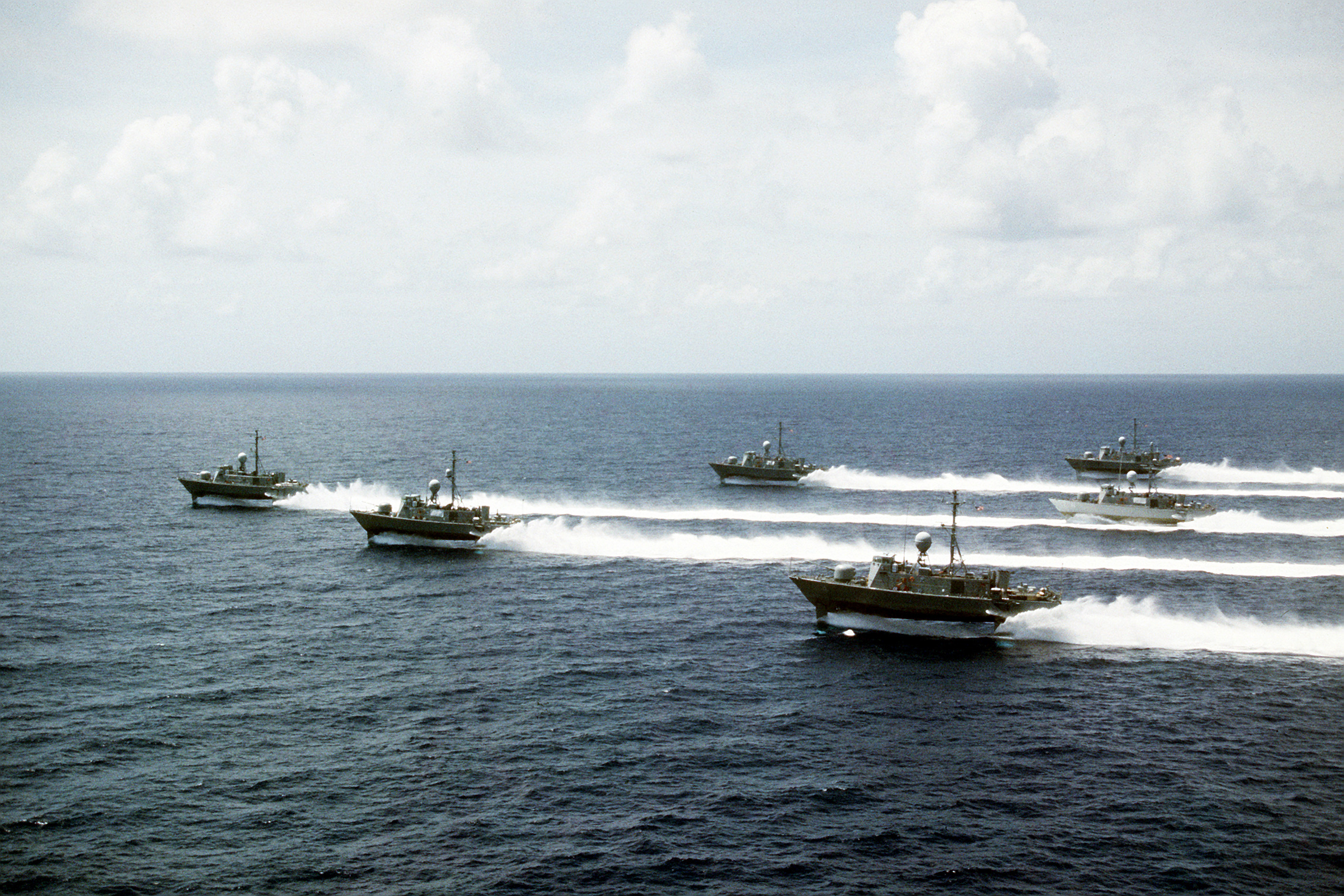 Six vessels of Patrol Combatant Missile Hydrofoil squadron 2 travel in formation en route to Naval Amphibious Base, Little Creek, Va. for decommissioning. The formation includes the USS PEGASUS (PHM-1), USS HERCULES (PHM-2), USS TAURUS (PHM-3), USS AQUILA (PHM-4), USS ARIES (PHM-5) and USS GEMINI (PHM-6)